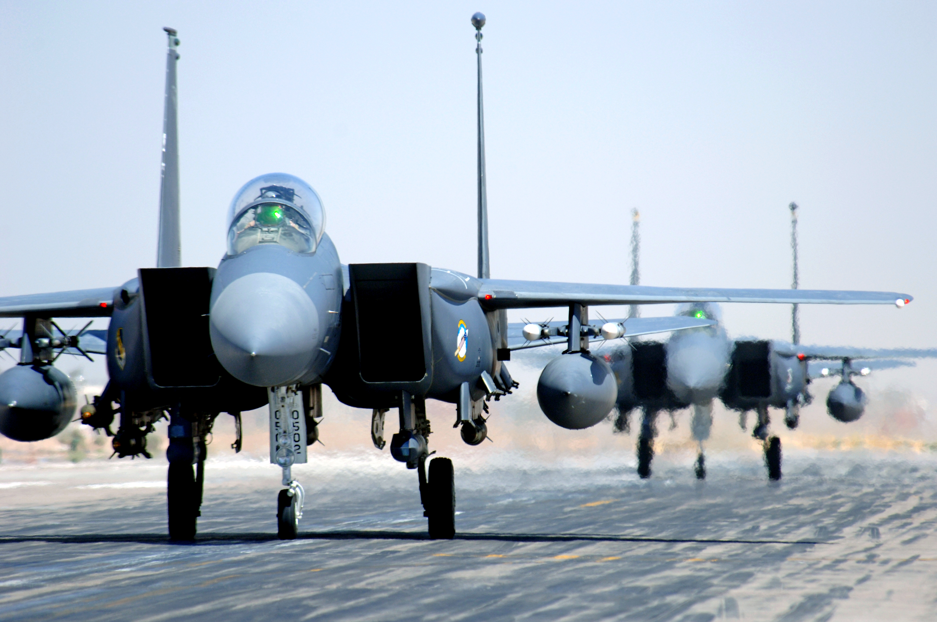 F-15E Strike Eagles taxi at Balad Air Base, Iraq, after an Operation Iraqi Freedom mission on Monday, June 12. The aircraft are deployed from Seymour Johnson Air Force Base, N.C. (U.S. Air Force photo/Staff Sgt. Tony R. Tolley)